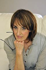 Martine Leavitt-- award-winning children's author